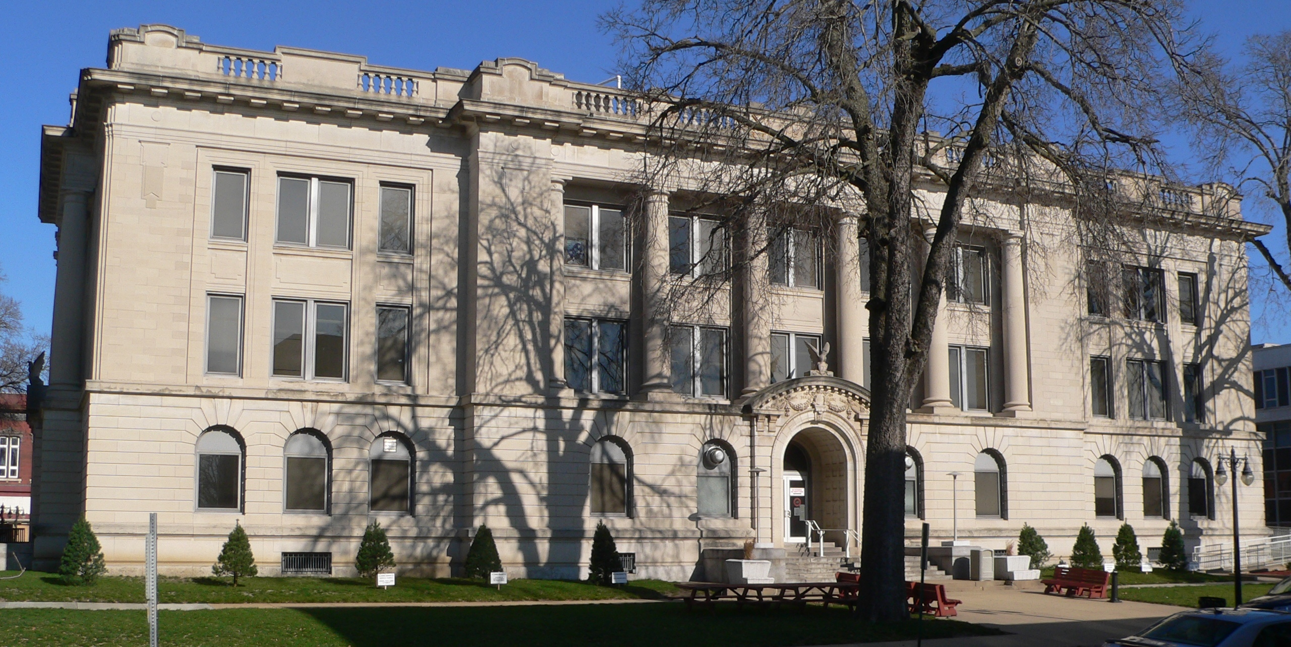 Tazewell County, Illinois courthouse, occupying most of the block between 4th and Capitol and between Elizabeth and Court Streets in Pekin, Illinois. The building's long axis runs northwest-southeast (parallel to Elizabeth and Court). View in the photo is from the southwest (from Elizabeth).